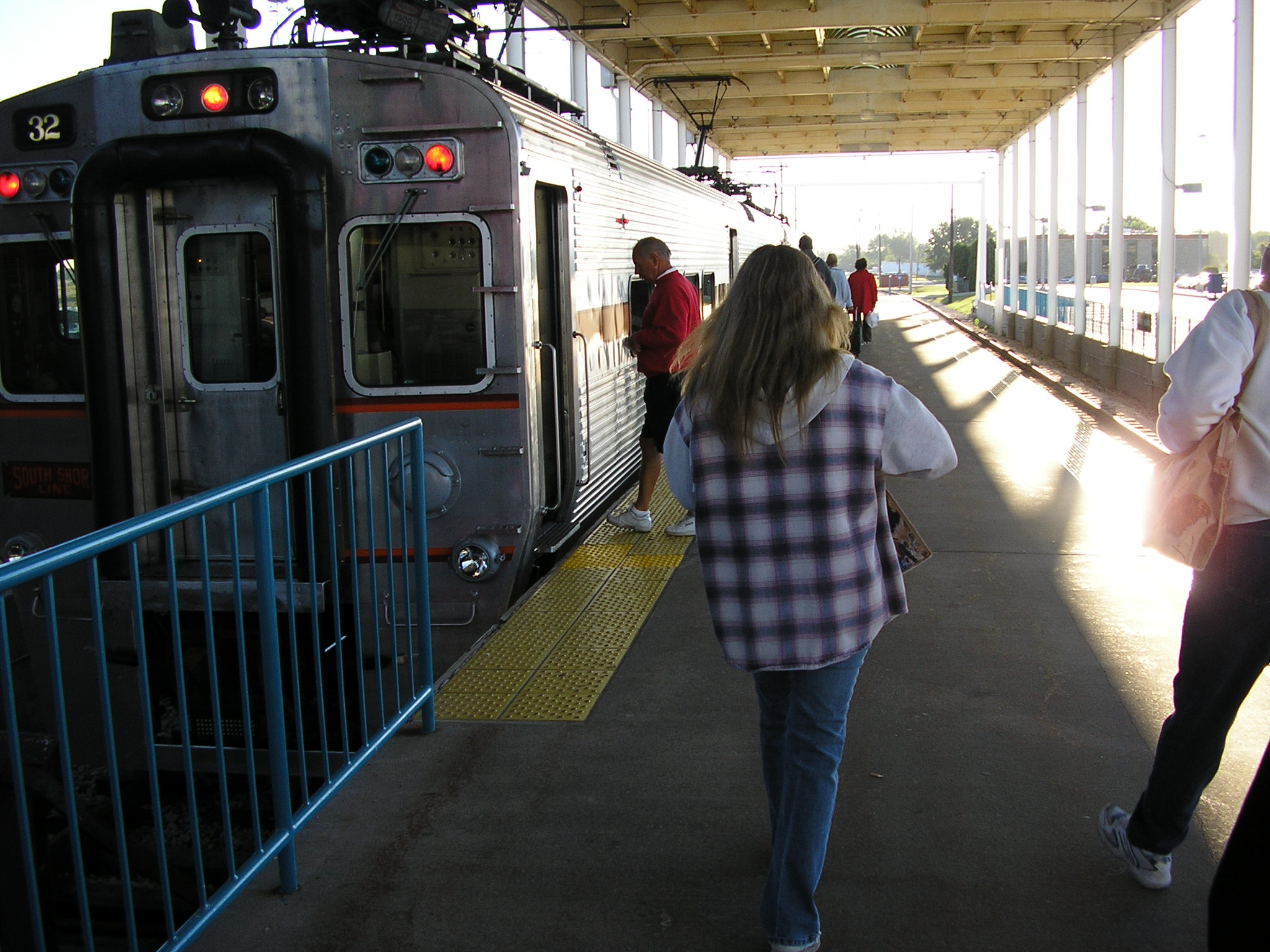 author: Georgi Banchev. South Shore line train at South Bend regional airport